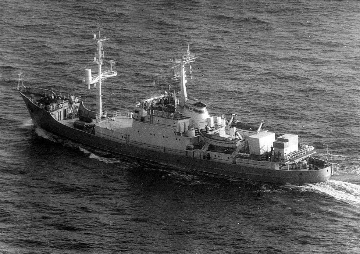 Soviet Moma class intelligence collection ship "JUPITER" Средний Разведывательный корабль Ченоморского флота СССР ССВ-416 "Юпитер"